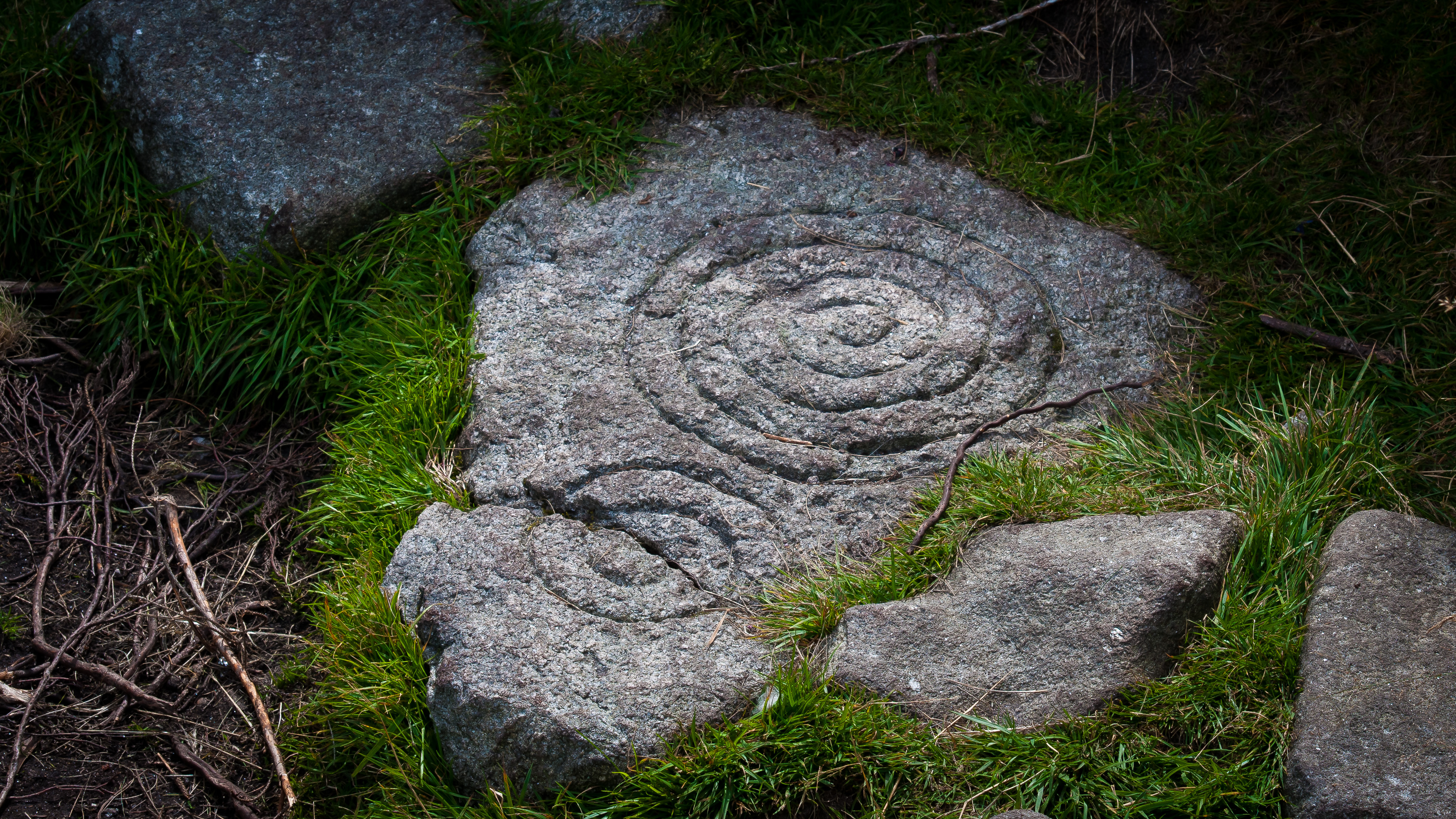 Stone with spiral pattern found in the chamber of the cairn near the summit of Tibradden Mountain, County Dublin, Ireland